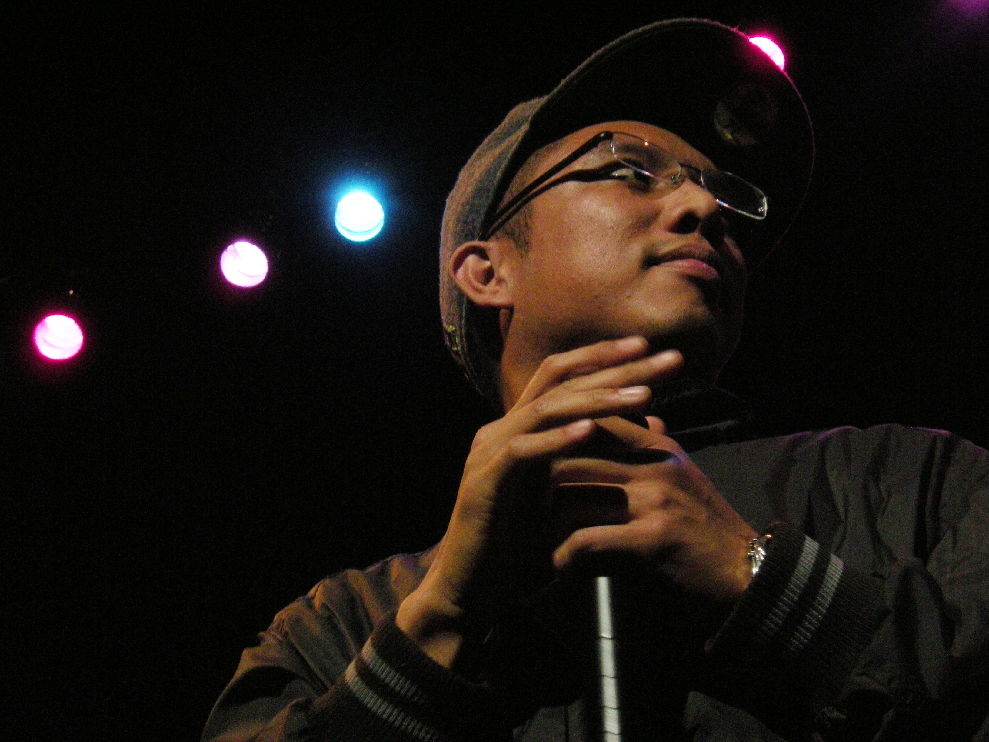 Geologic, emcee of Blue Scholars, performing at the launch of "Seattle, City of Music", Paramount Theater, Seattle, Washington.